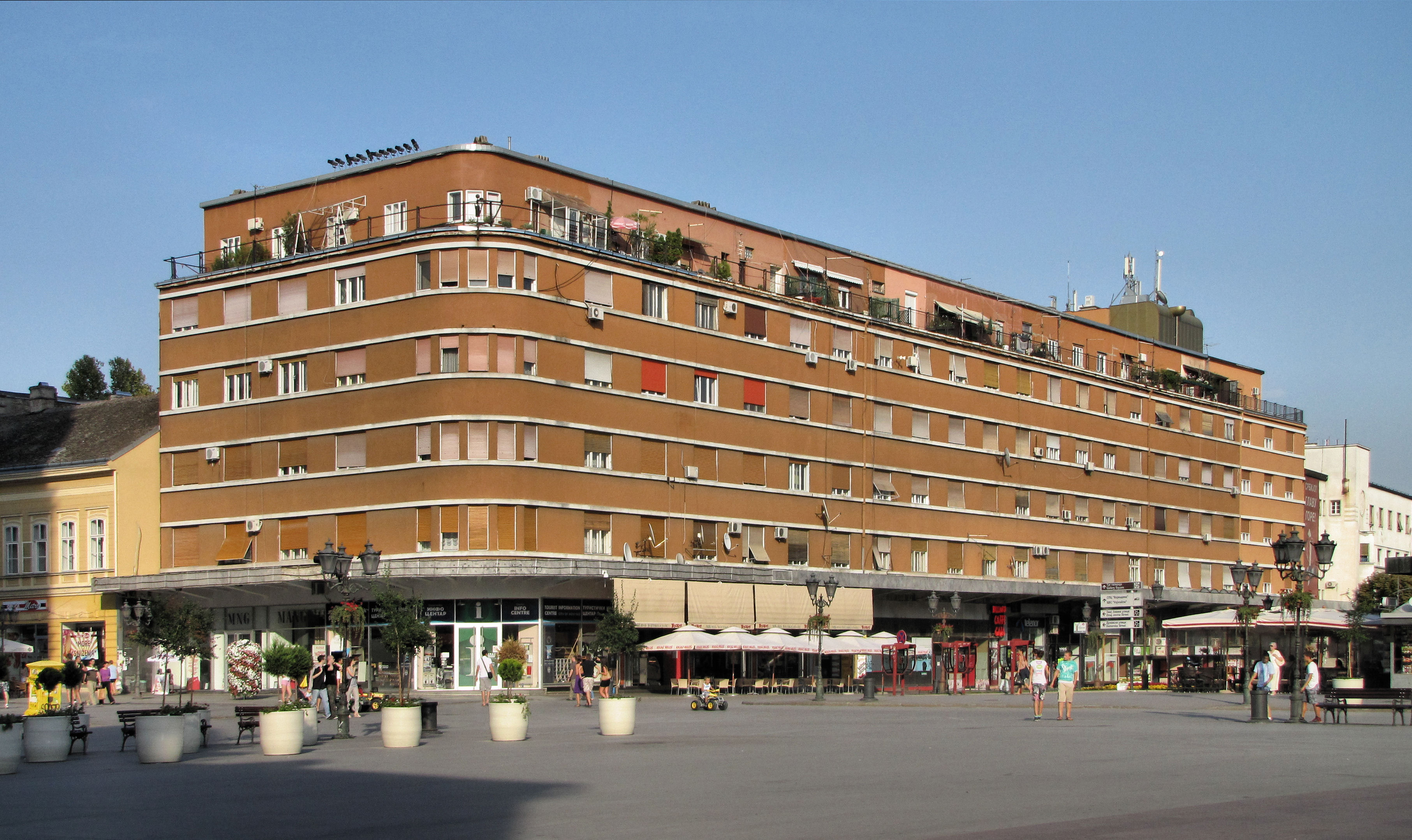 Tanurdžić palace, Liberty Square, Novi Sad, Serbia. Built in 1933, by the pland of Djordje Tabakovic.